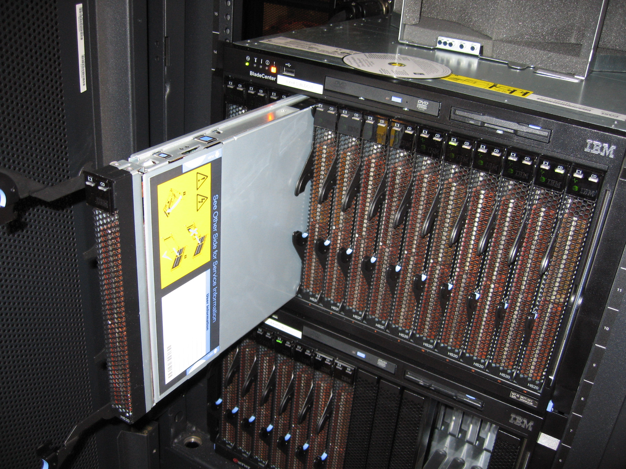 Front of an IBM bladecenter, with an HS20 server partially removed.